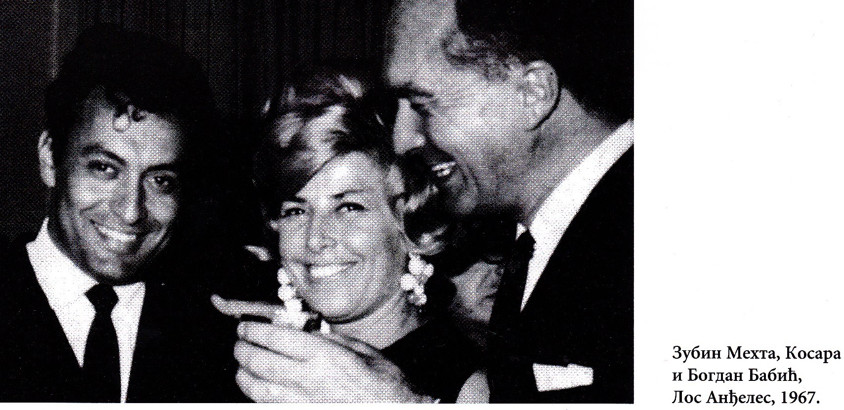 Bogdan Babić (Богдан Бабић) with wife and Zubin Mehta